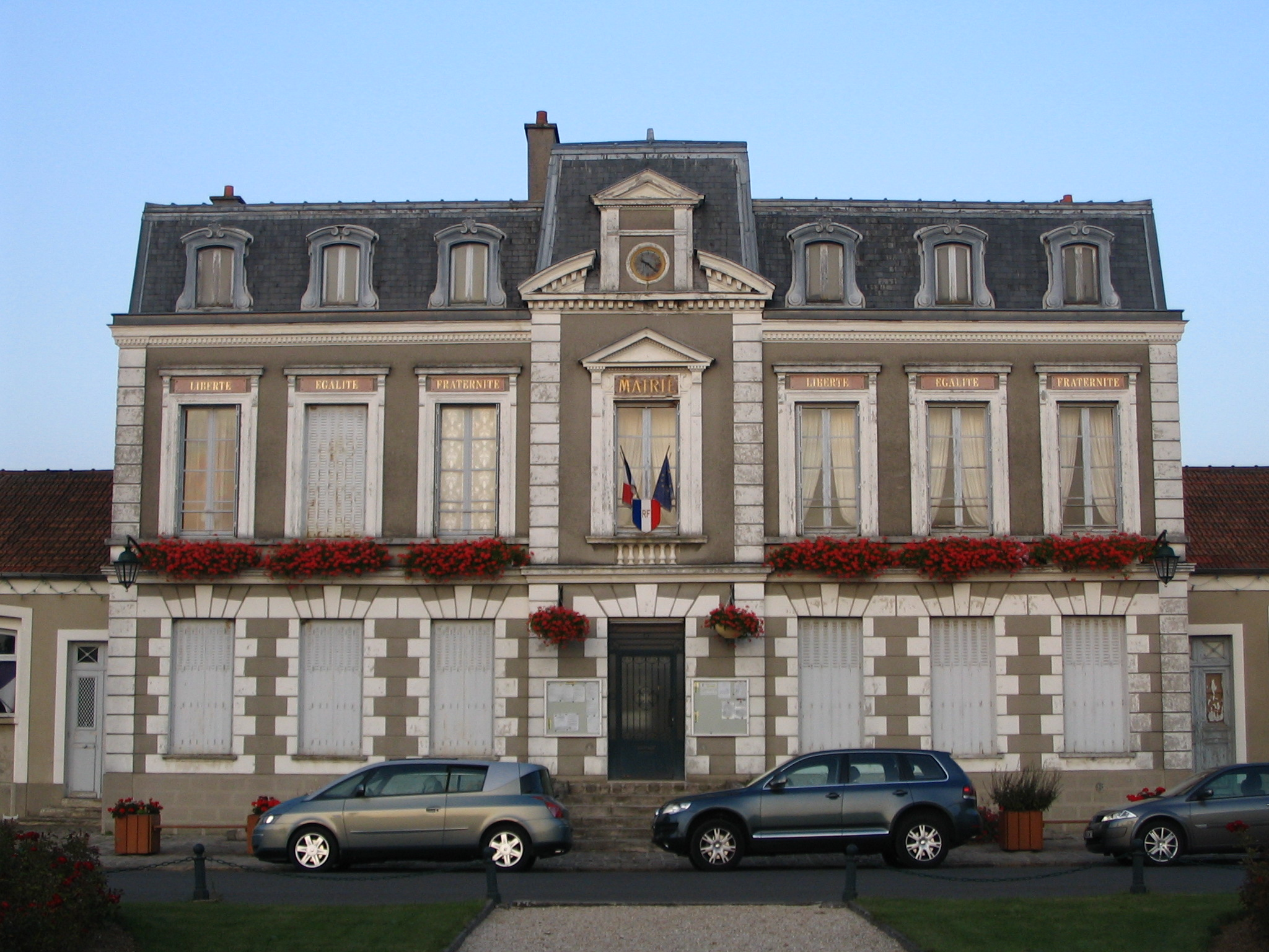 The town hall of Grisy-Suisnes, Seine-et-Marne, France.